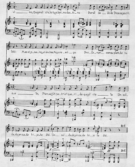 The text and musical notation of the Mexican national anthem, sheet one.